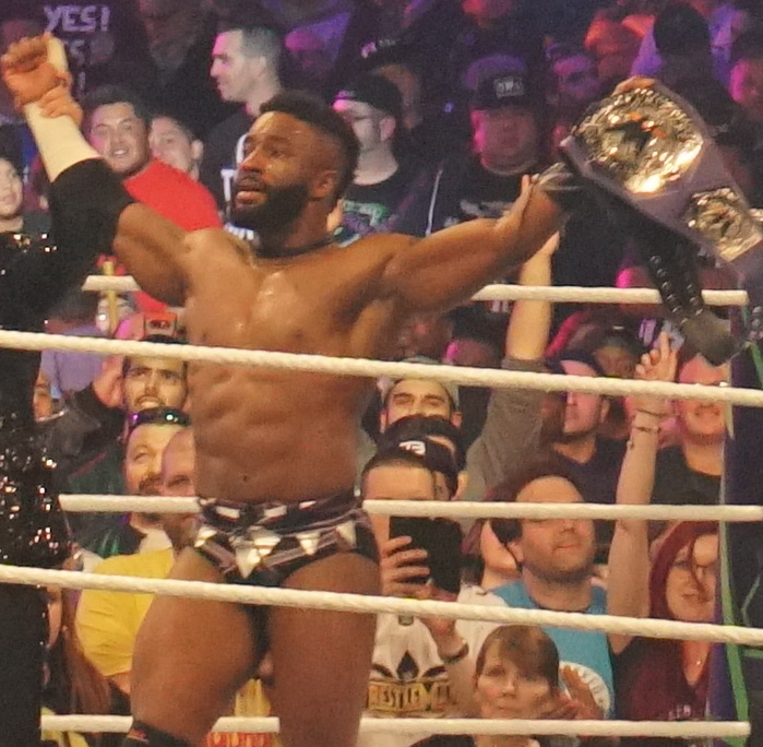 Cedric Alexander after winning the WWE Cruiserweight Championship at WrestleMania 34.